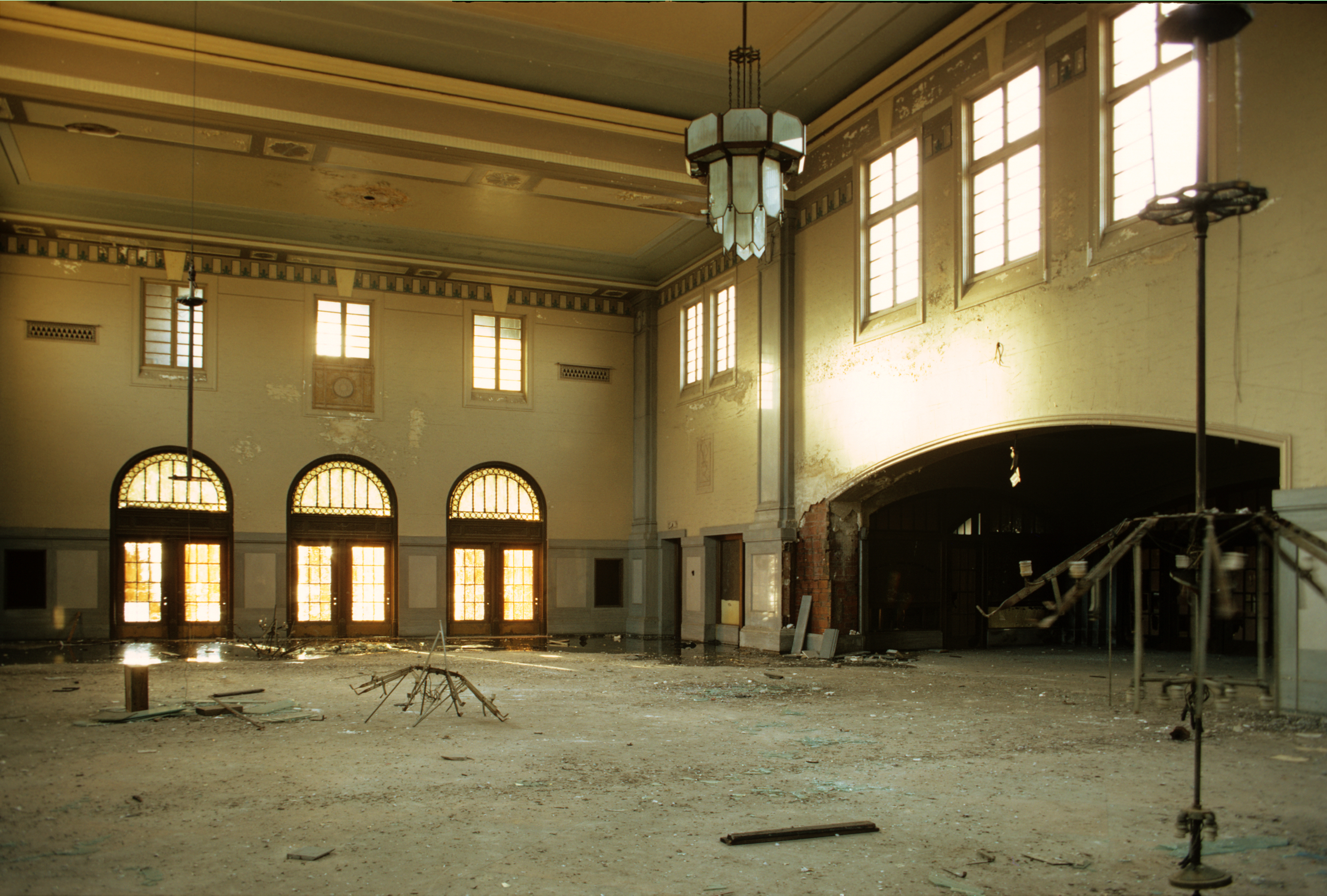 Photo of the Tulsa Union Depot interior, under renovation — Tulsa, Oklahoma.